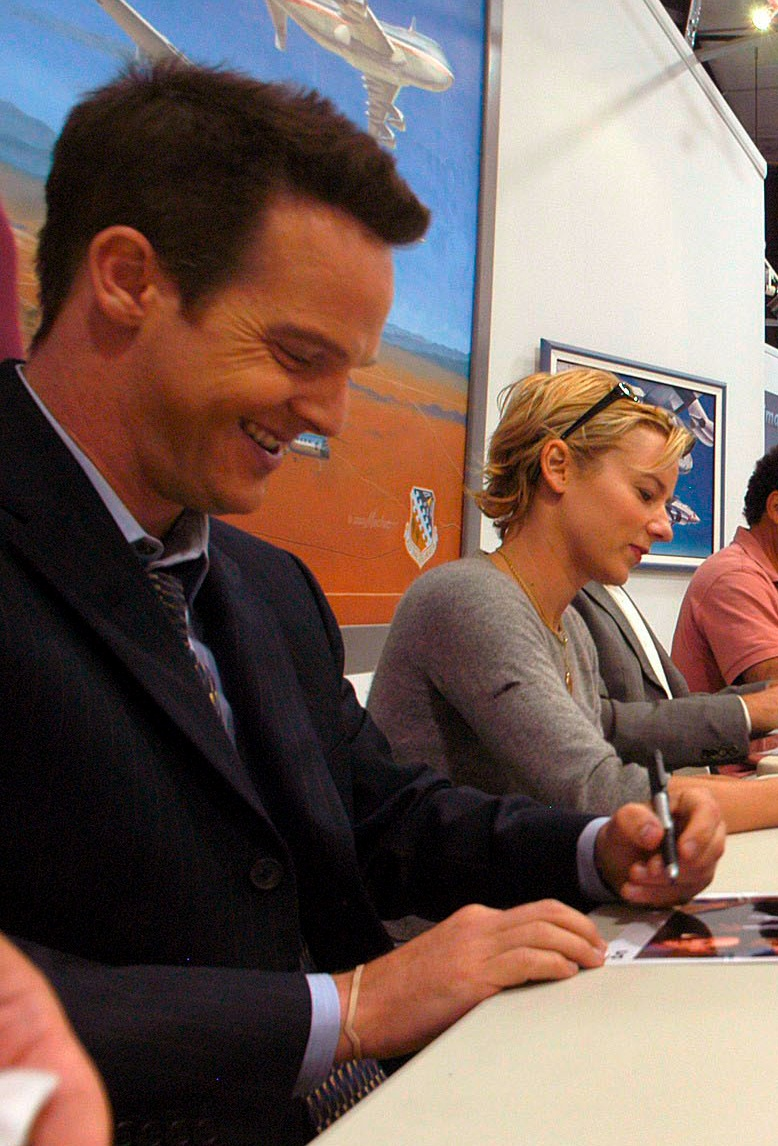 EDWARDS AIR FORCE BASE, Calif. -- Jason Gray-Stanford and Traylor Howard singning autographs at Edwards AFB. More than 200 people received autographs from the cast of NBC Universal and USA Network's show "Monk" here Sept. 9. The cast and crew wrapped-up a two-day filming of a new episode scheduled to air on USA Network in January 2006.